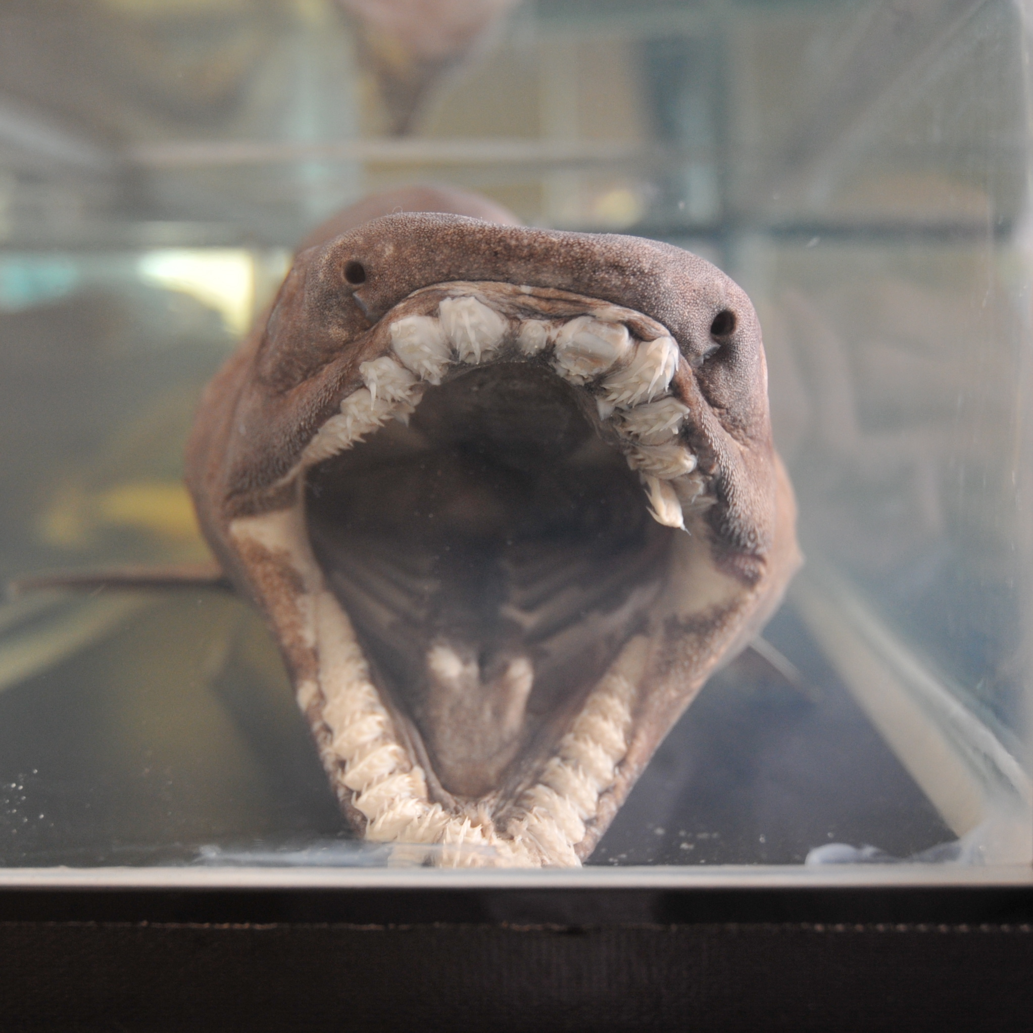 The mouth of a frilled shark (Chlamydoselachus anguineus) at Shin-Enoshima Aquarium.